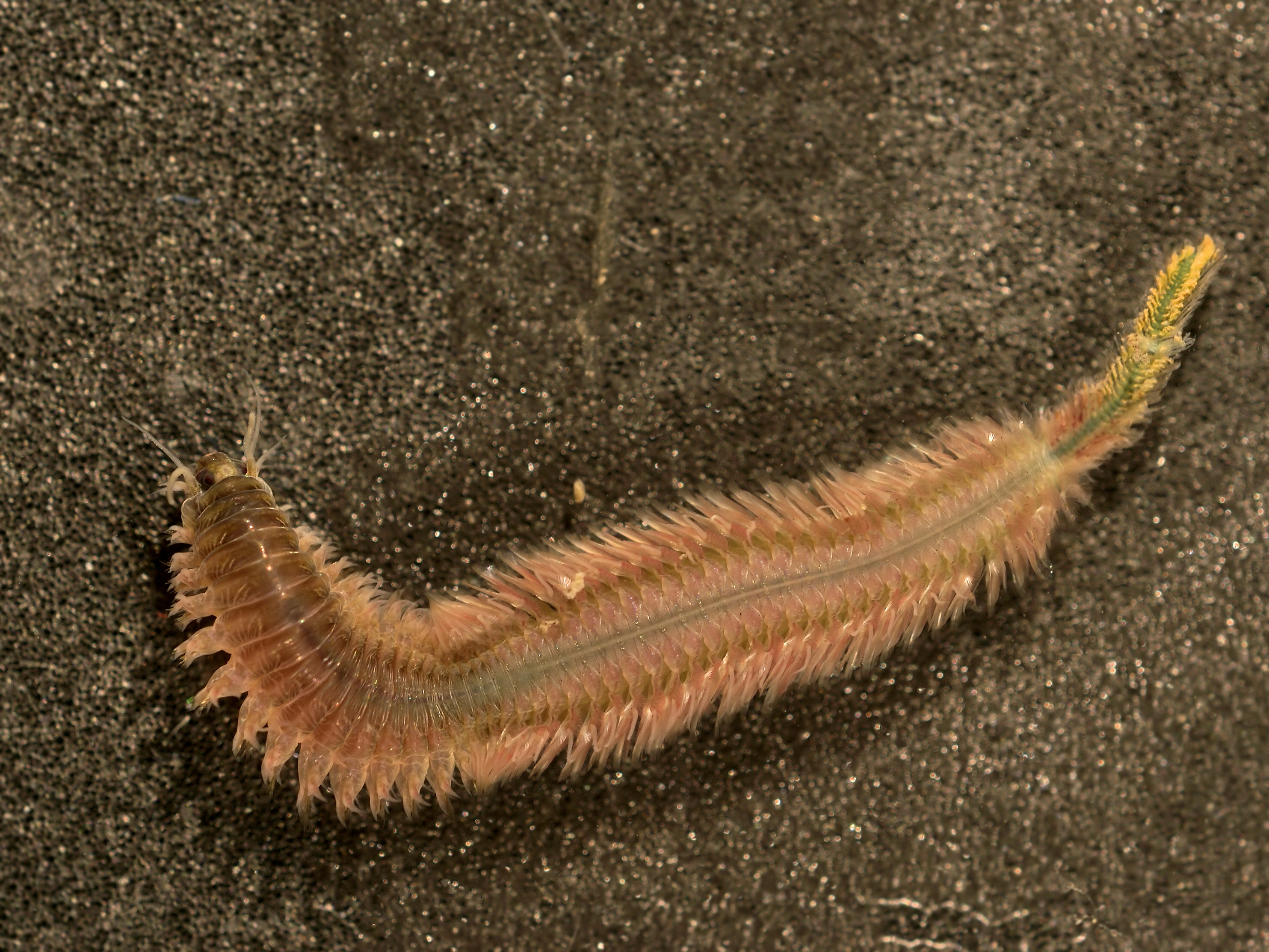 Epitoke form from de Spuikom, Oostende - BelgiumLength: ~40 mm.